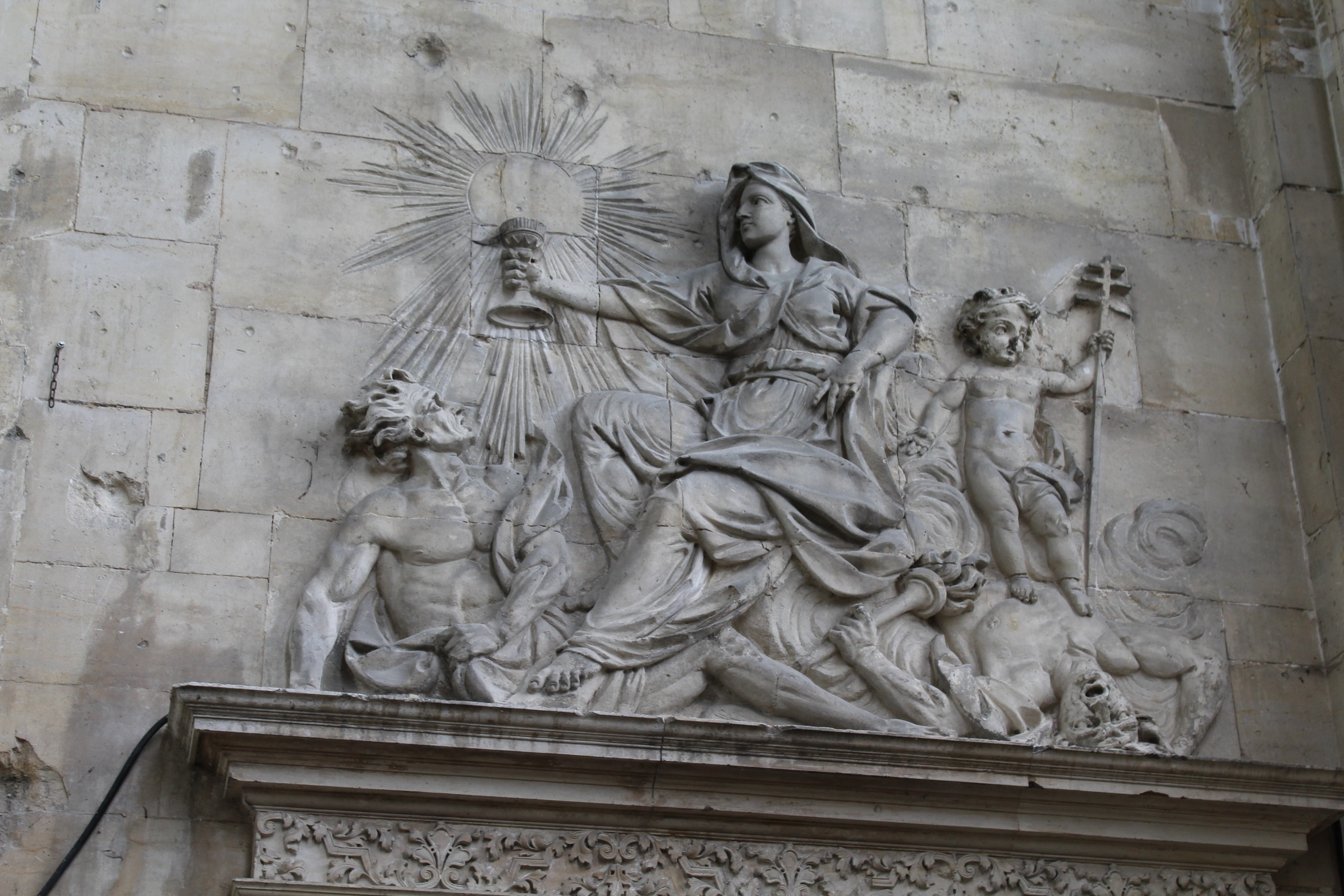 Pont-à-Mousson, Norbertine abbey, sculptures